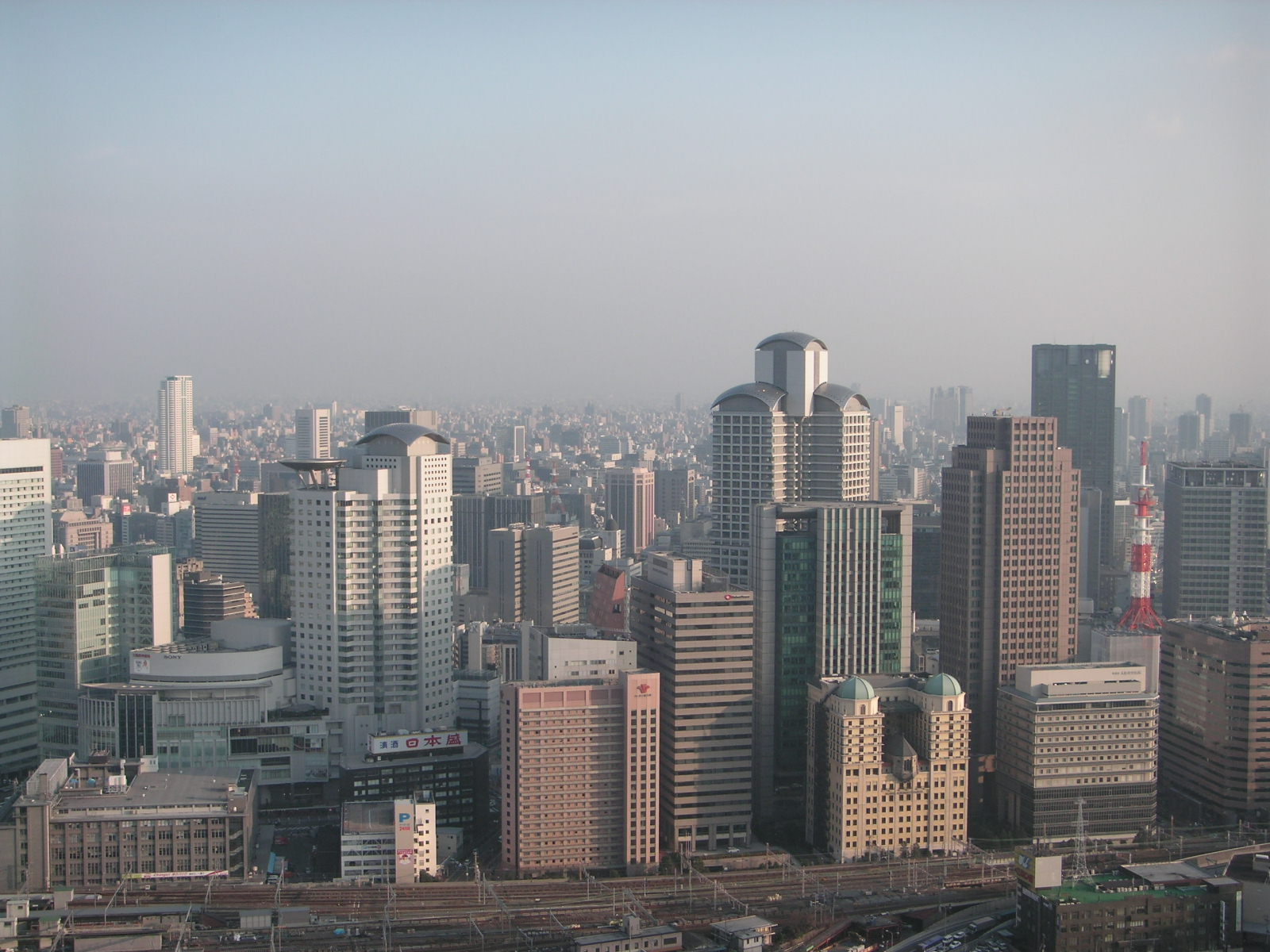 View from Umeda Sky Building date March 17,2006 Author : Krisgrotius 19:01, 18 October 2006 (UTC)